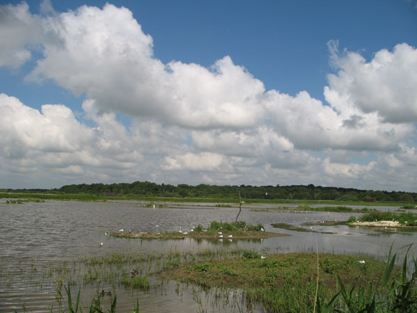 View looking west over the 'scrape' at RSPB Minsmere nature reserve, Suffolk, United Kingdom